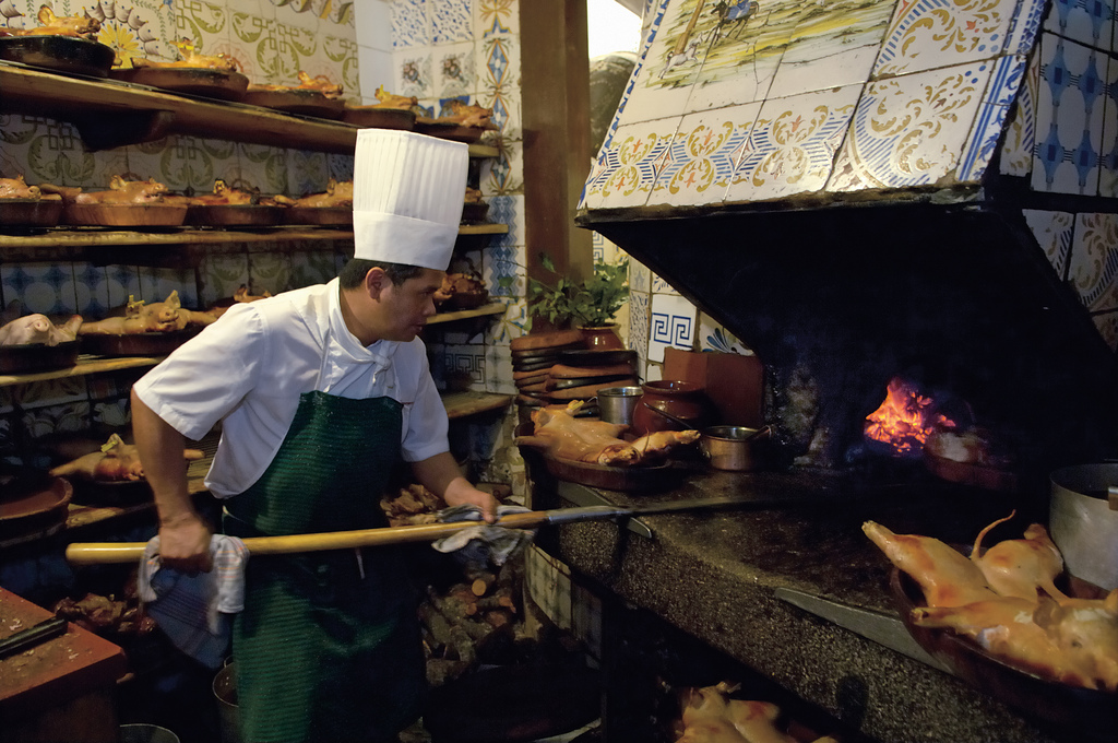 Casa Botín This photograph can be used for publications, including this copyright statement: “©PromoMadrid, author Max Alexander”. Esta fotografía puede usarse en publicaciones, incluyendo la declaración “©PromoMadrid, autor Max Alexander”.